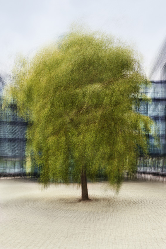 The work of artist Jacob Gils from the serial Movement